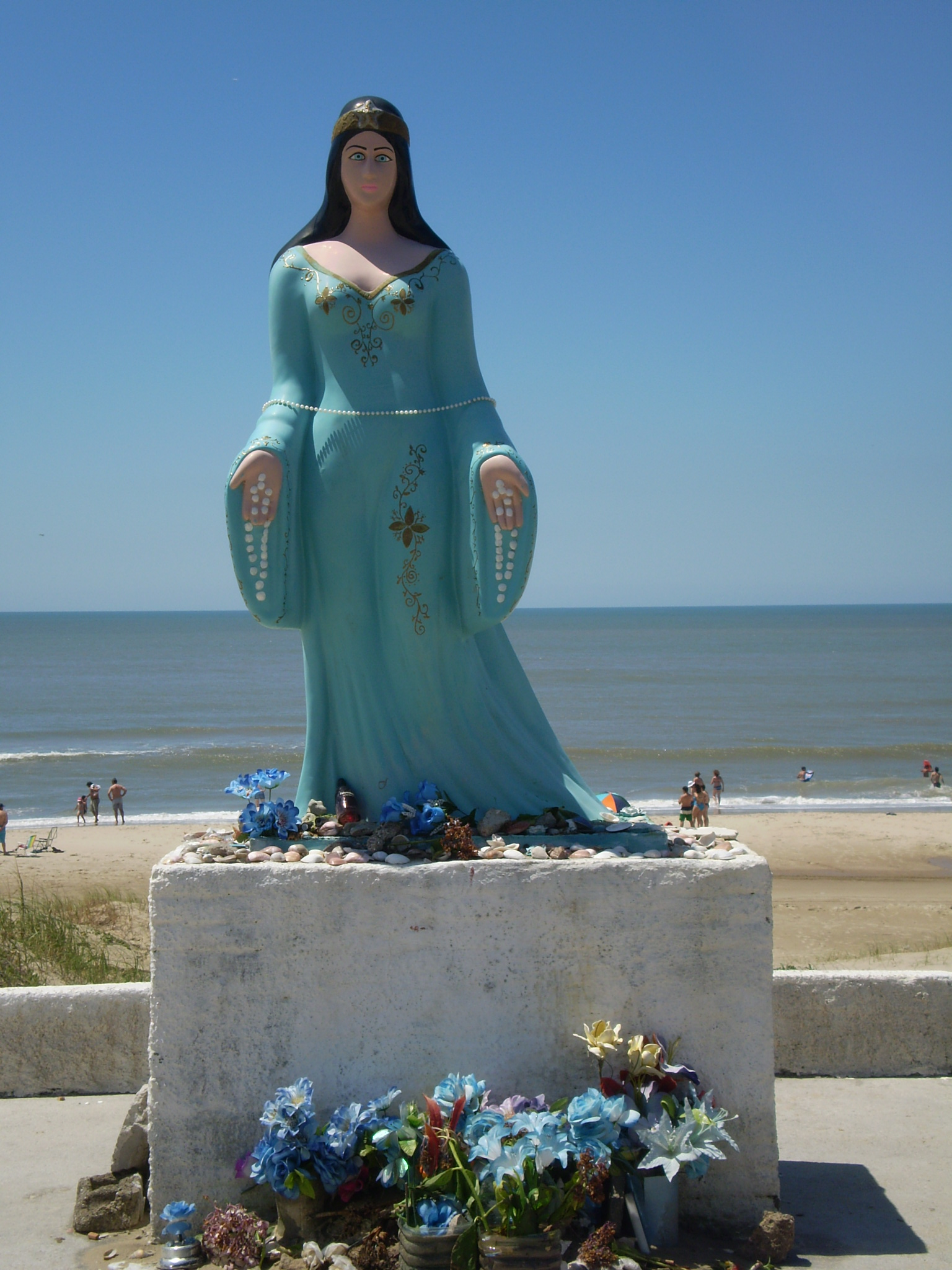 Statue of the godess Iemenjá, [_image: [1]the Queen of the waters, Barra do Chuí, Santa Vitória do Palmar, Rio Grande do Sul, Brazil.